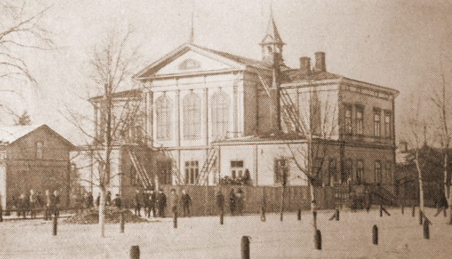 The old town hall of Kemi (Finland) was built 1896 and it was burned down in a fire in 1931. It was used as a upper secondary school in 1905-1930.